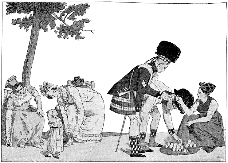 French illustration titled "Le prétexte." A humorous caricature depicting Scottish soldiers, wearing kilts, leaning forward to inspect items for sale. Behind them, two well-dressed Parisian women use the pretext of playing with a child or tying a shoe in order to lean over and peek beneath the soldier's kilts. Caption in scan source (not the original 1815 caricature caption) was Der Vorwand ("the pretext").